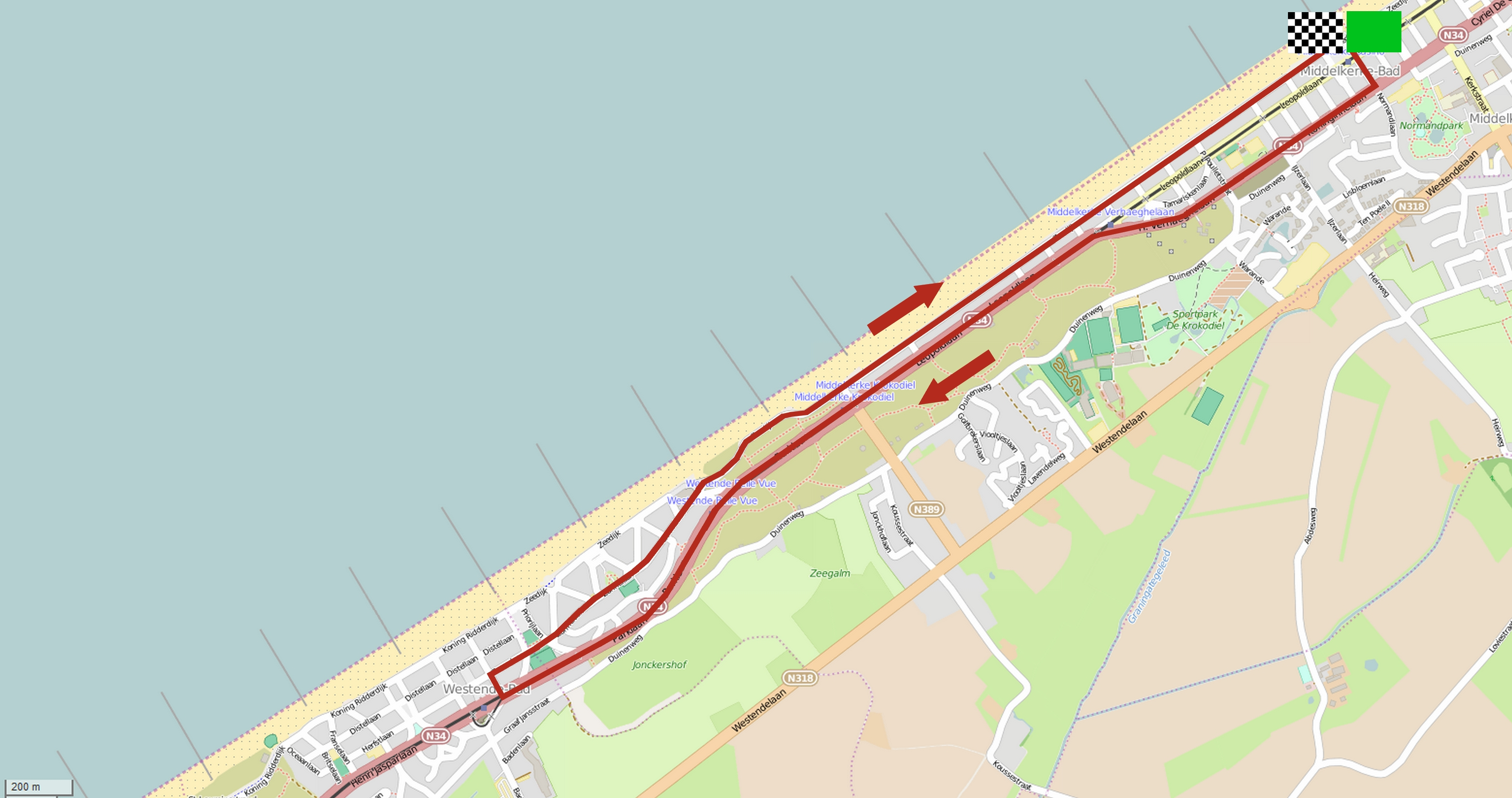 Parcours du prologue des Trois jours de Flandre-Occidentale 2015. This map may be incomplete, and may contain errors. Don't rely solely on it for navigation.